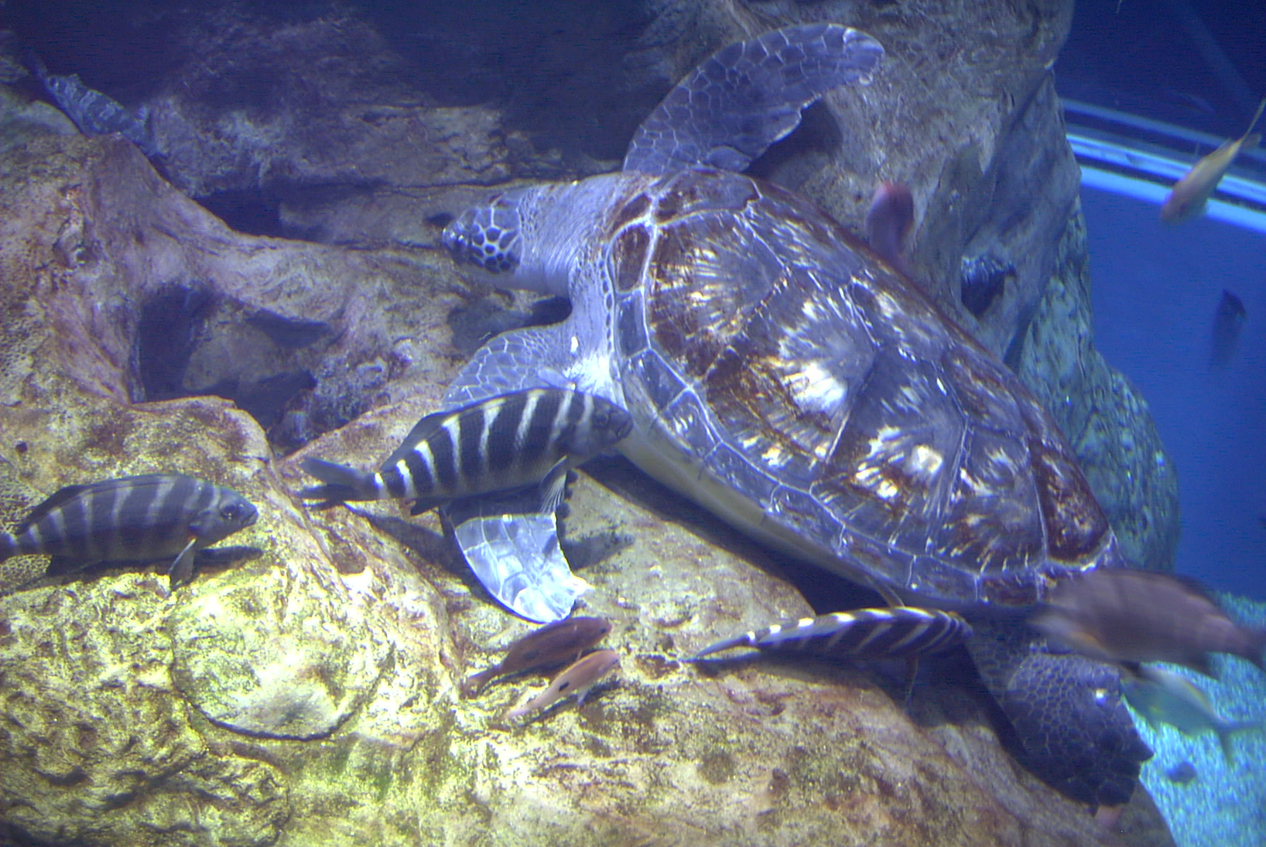 A sea turtle at the Osaka Aquarium Photo taken by me on July 1, 2006.